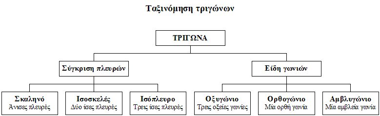 Triangles taxonomy